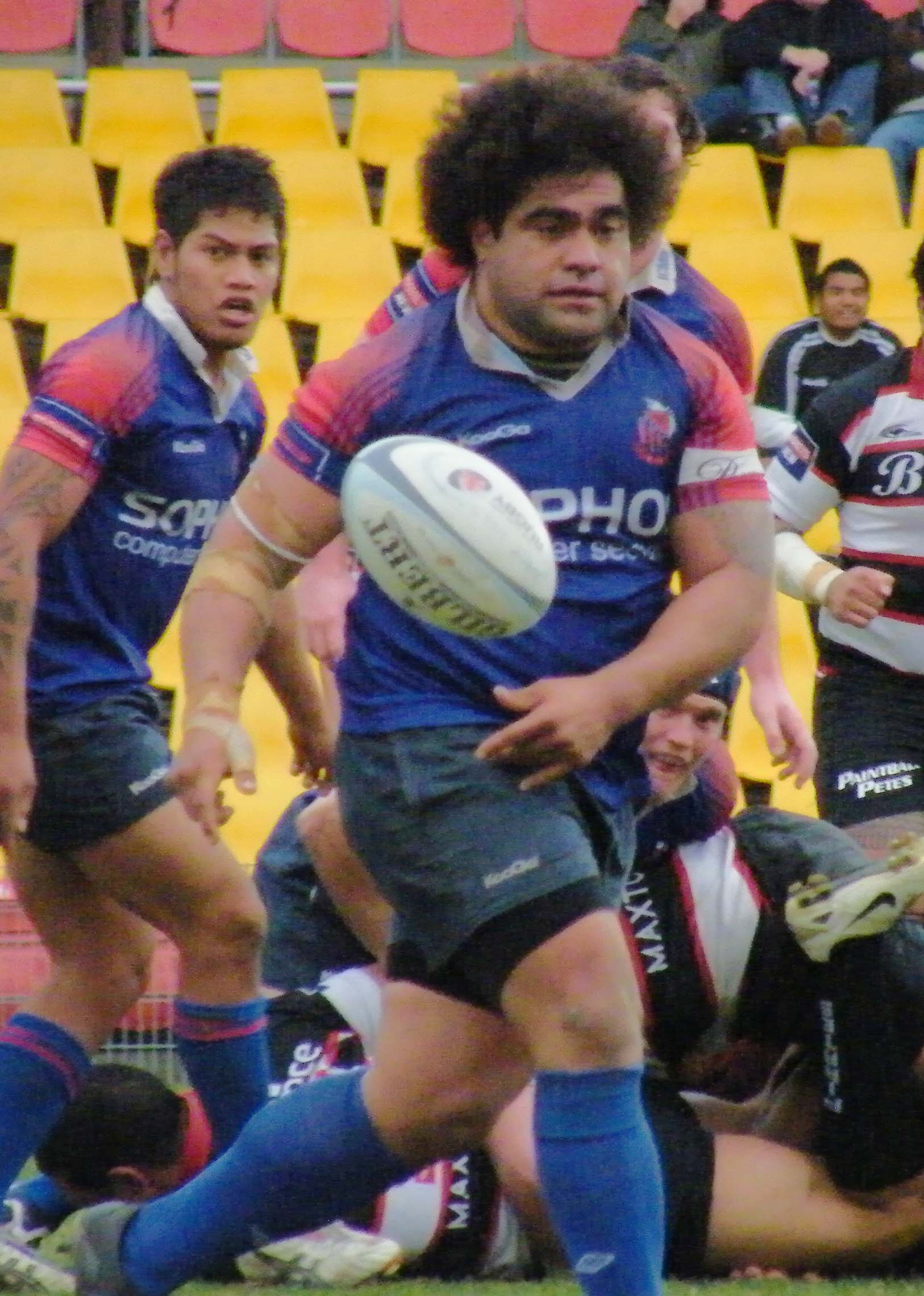 James Lakepa of Manly RUFC.